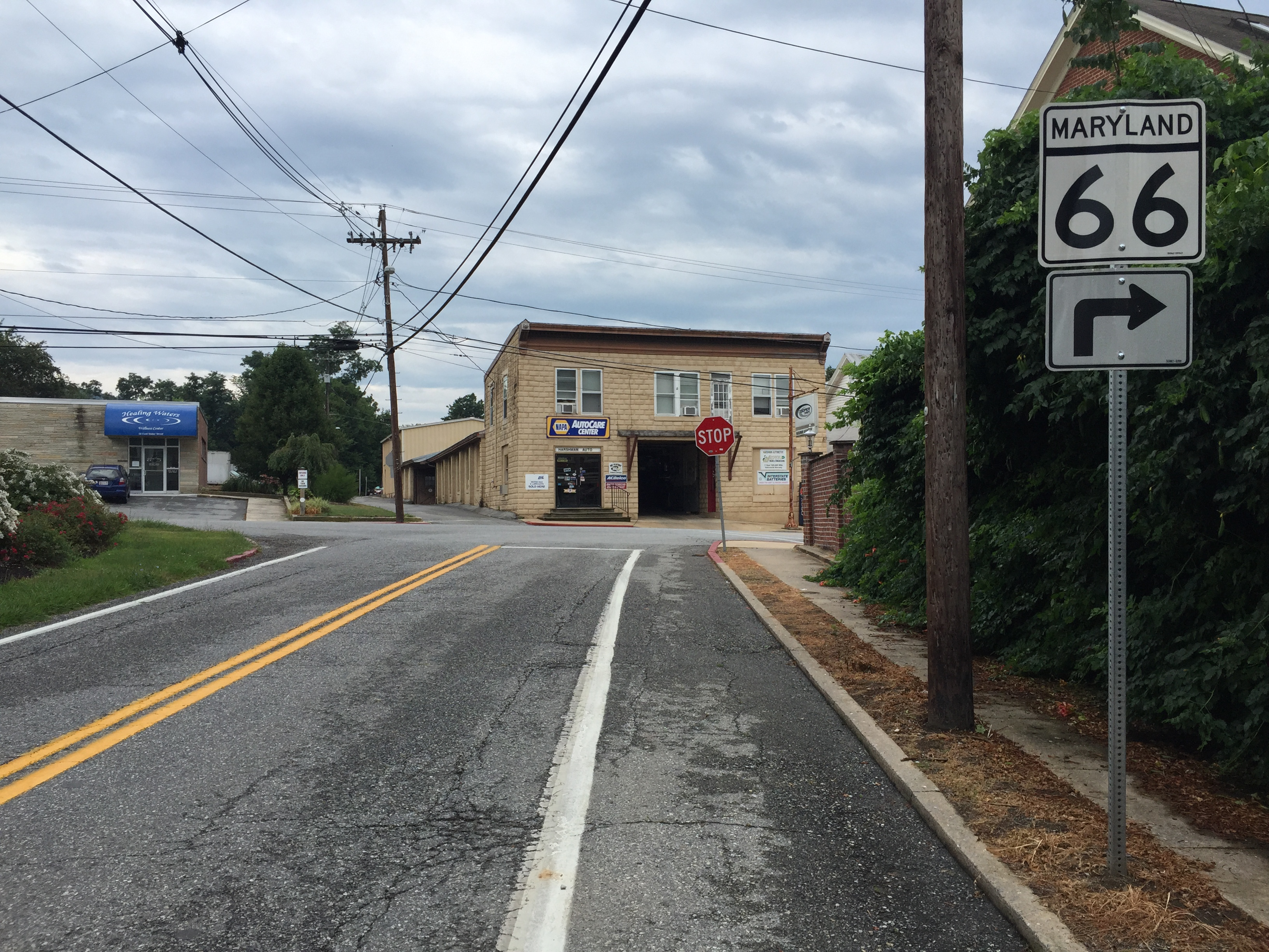 View south along Maryland State Route 66 (Pennsylvania Avenue) at Water Street in Smithsburg, Washington County, Maryland